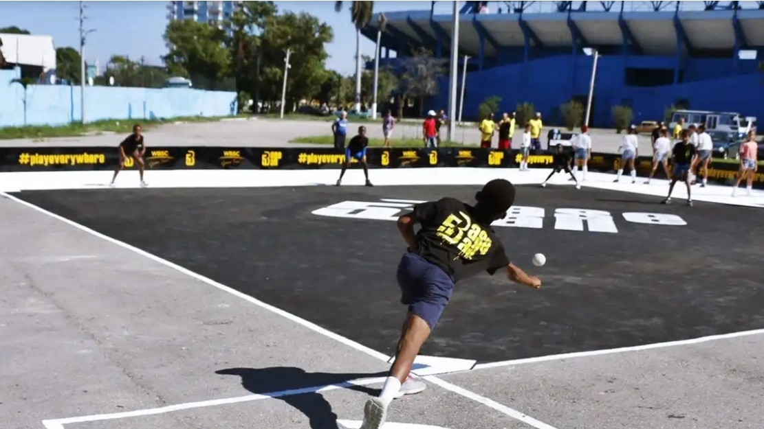 Baseball5 launches in streets of Havana